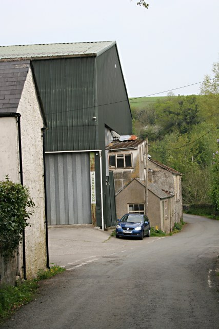 The Mill at Bealsmill This old watermill house has a huge industrial shed attached to it. It seems the mill continued as a working mill into the modern era and is marked on the map as a Corn Mill. It looks like it has now closed as there is a notice on the wall asking for planning permission to demolish the industrial shed and convert the old mill building into residential accommodation.